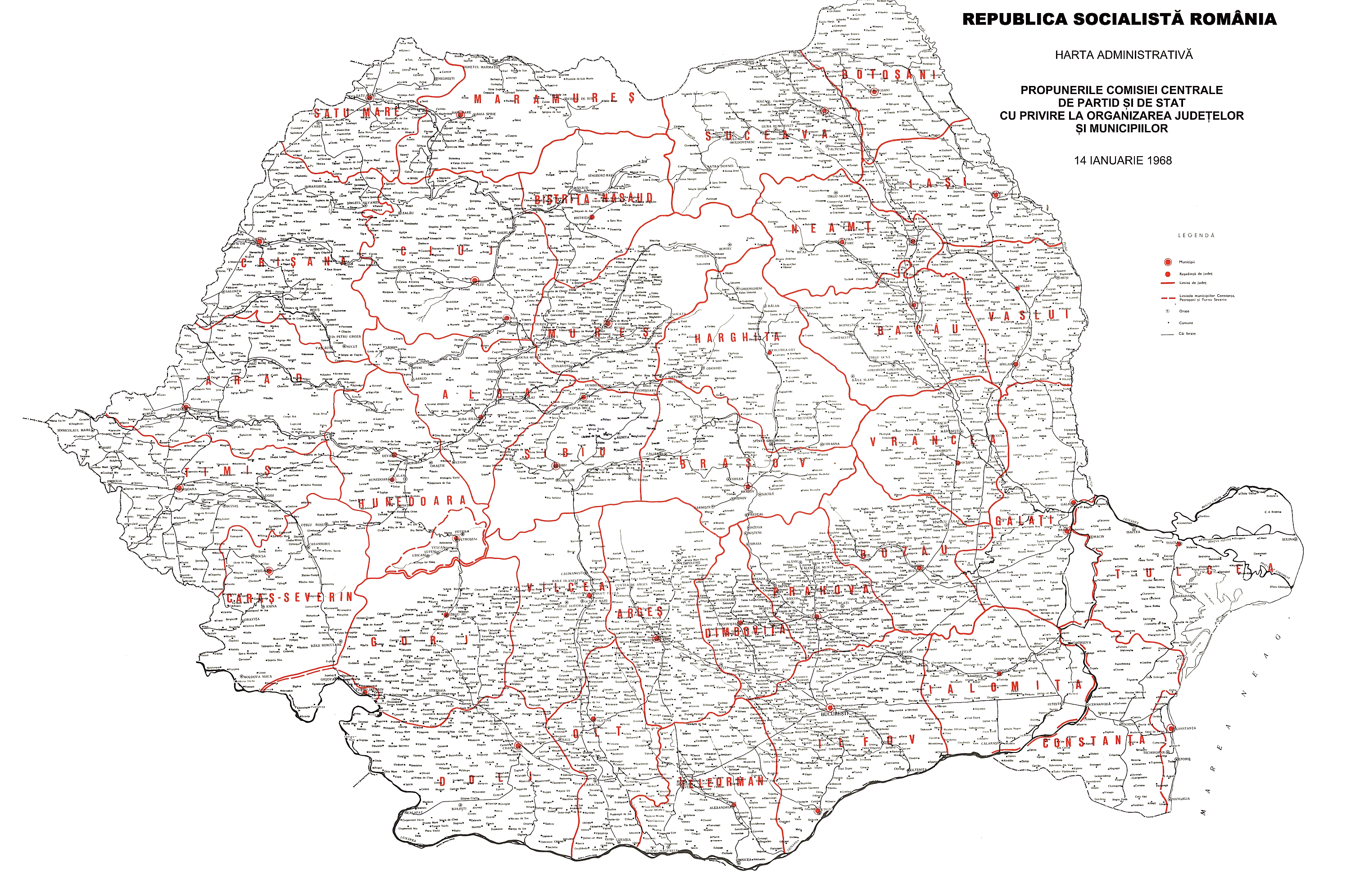 Romania, administrative map. The proposal of Central Comission of the Romanian Communist Party and the State regarding the future counties and municipalities of Romania. January 14, 1968. Proposal text (in Romanian).